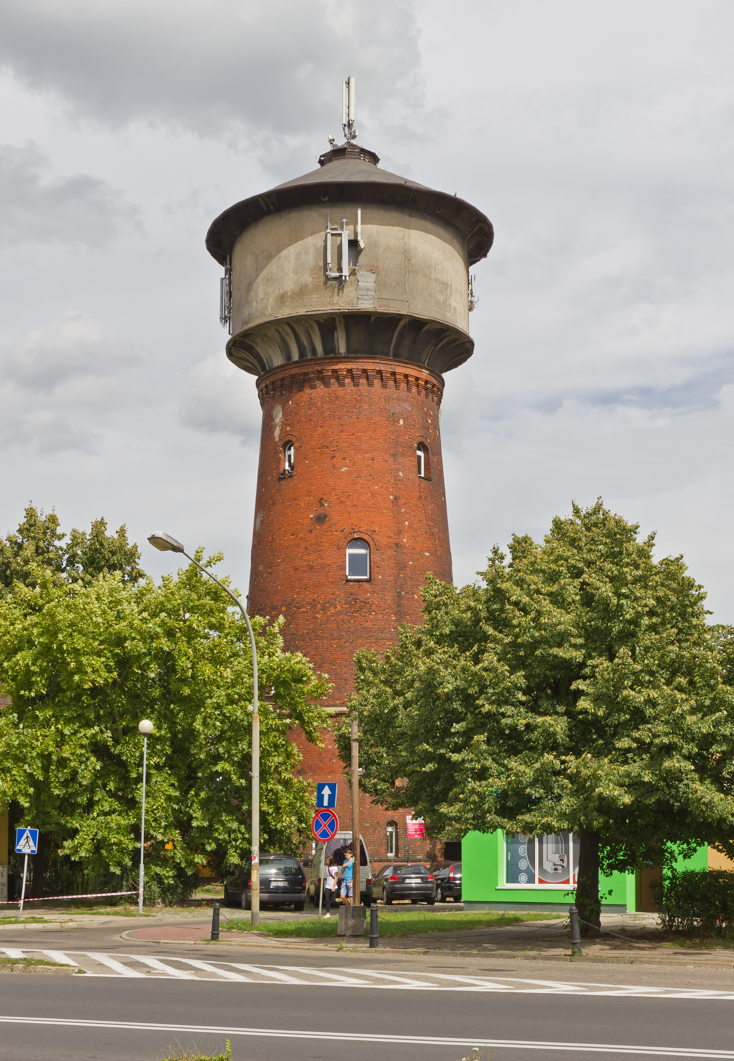 Water tower near the train station of Kostrzyn, Lubusz Voivodeship, Poland